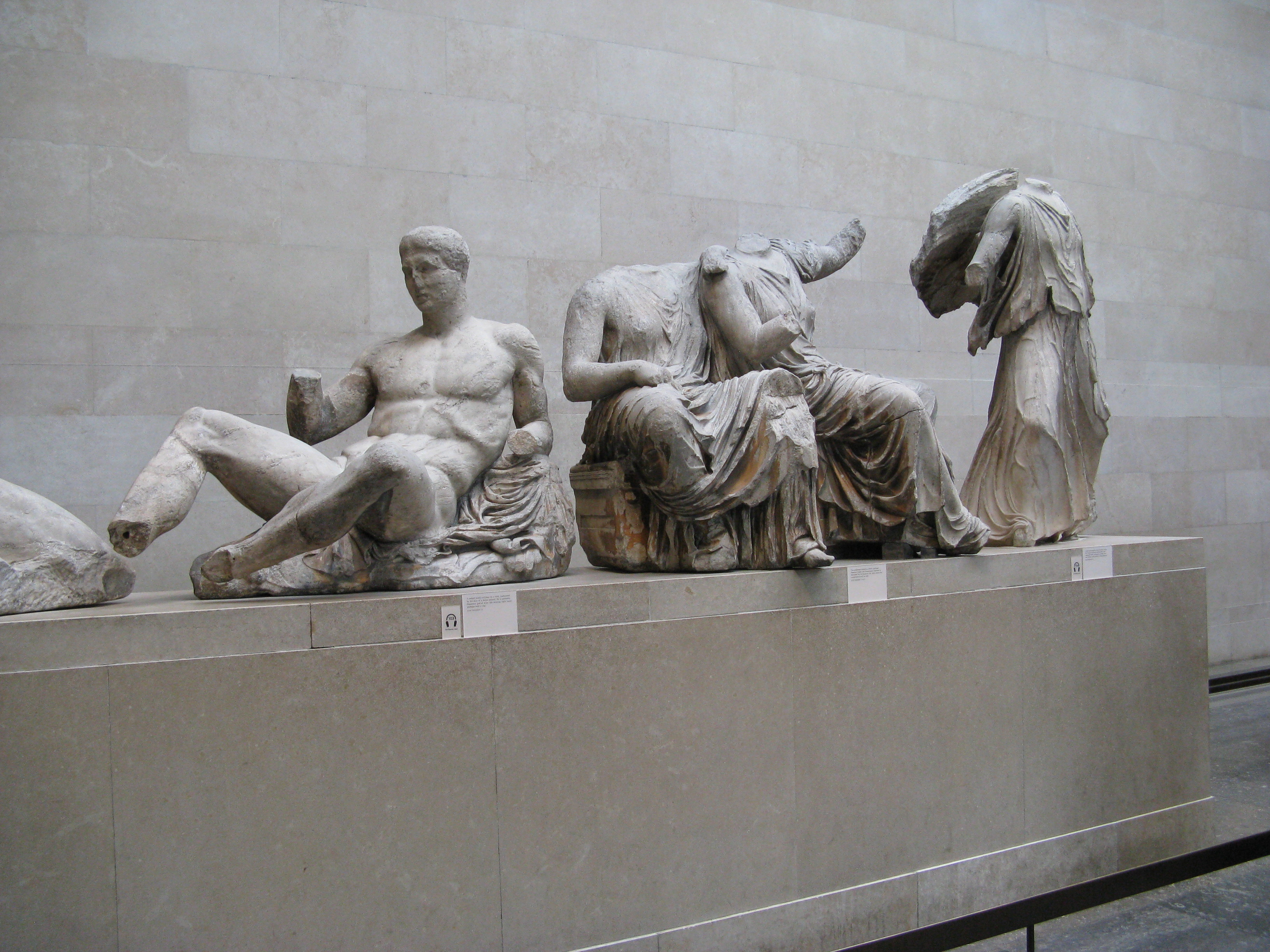 Pediments of the Parthenon at the British Museum.